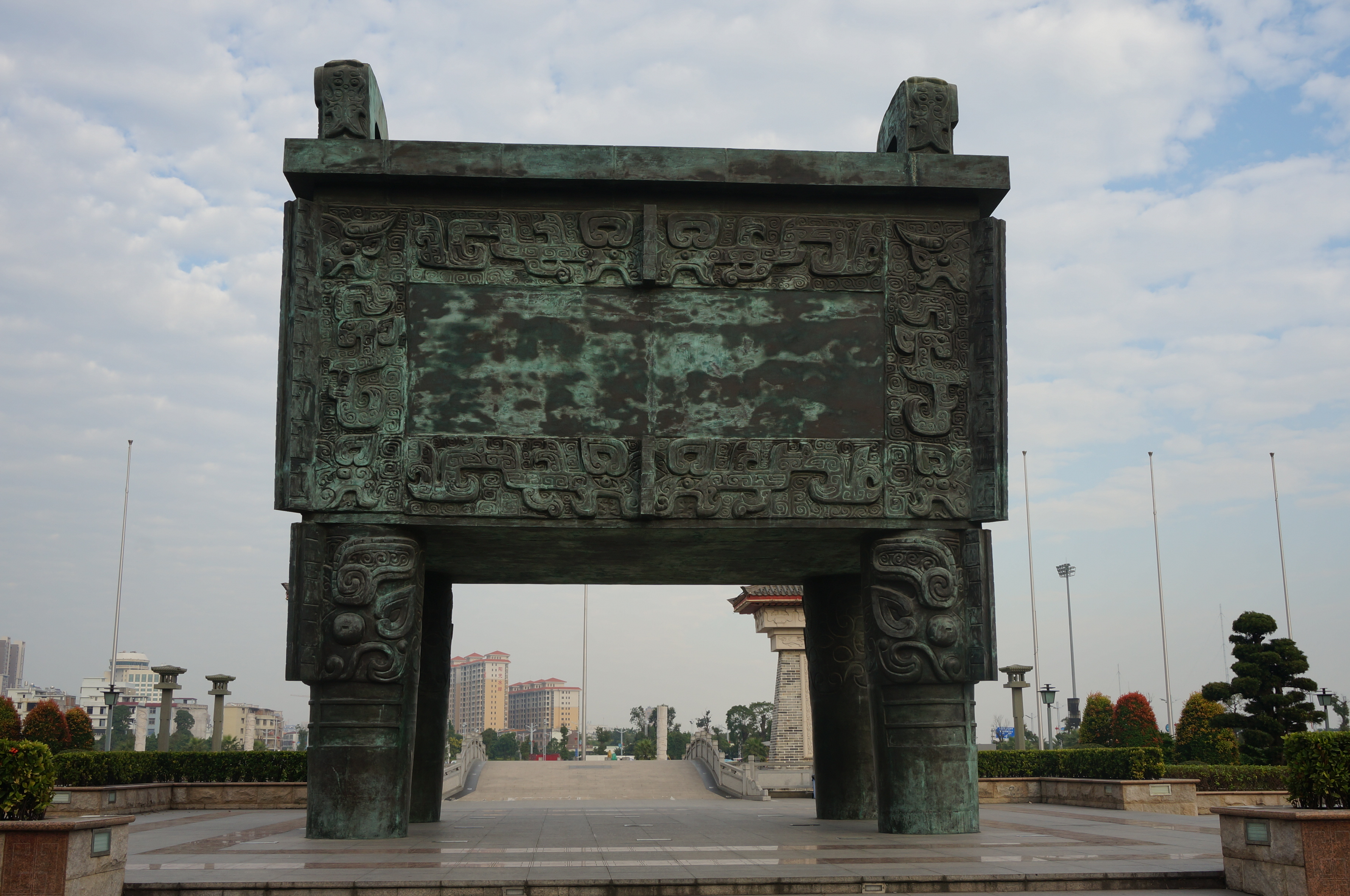 This image shows the bronze tripod in Jieyang Tower Square.